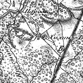 Khylin on the map "Военно-топографическая карта Российской Империи" (known as "Schubert's map"), XX 5, 1866-1887 (issued in 1913).